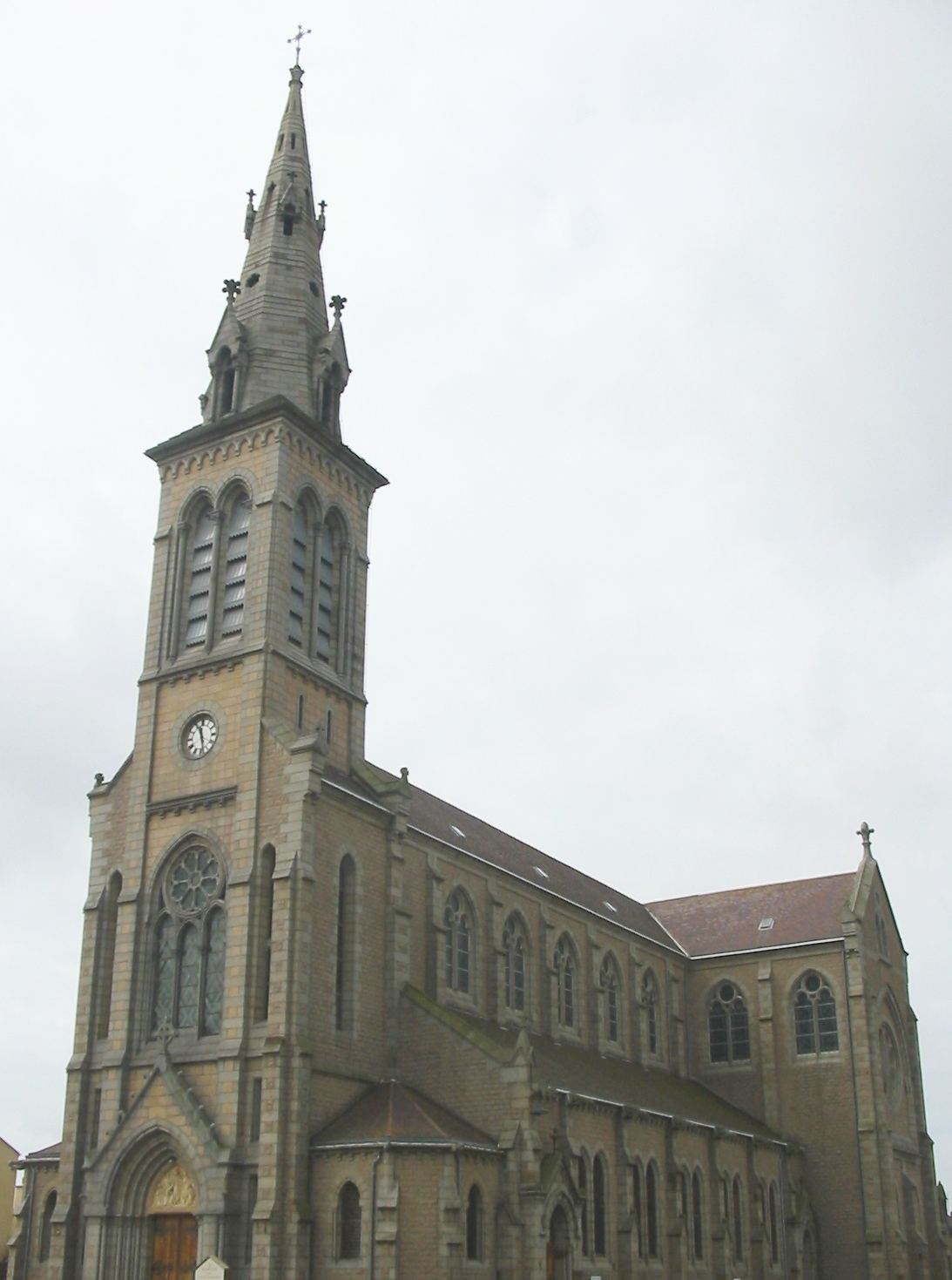 Saint Thomas Roman Catholic church, Saint Helier, Jersey, taken from Val Plaisant